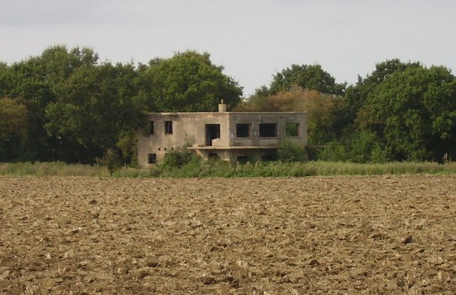 Control Tower / Watch Office, RAF Beccles RAF Beccles was built by the USAAF in 1943 but passed briefly to RAF Bomber Command before passing to Coastal Command in August 1944. Until closure in 1945 the airfield was used by various RAF and FAA squadrons operating such diverse types as Warwick, Barracuda, Walrus, Swordfish, Sea Otter and Albacore on air-sea rescue and anti-shipping duties. At one time Beccles was called HMS Hornbill II. This photo is of the Battle Headquarters which can also be seen from the road from Ellough to Beccles which runs behind the trees. Now a derelict shell the RAF roundels can still be seen painted on the outside.